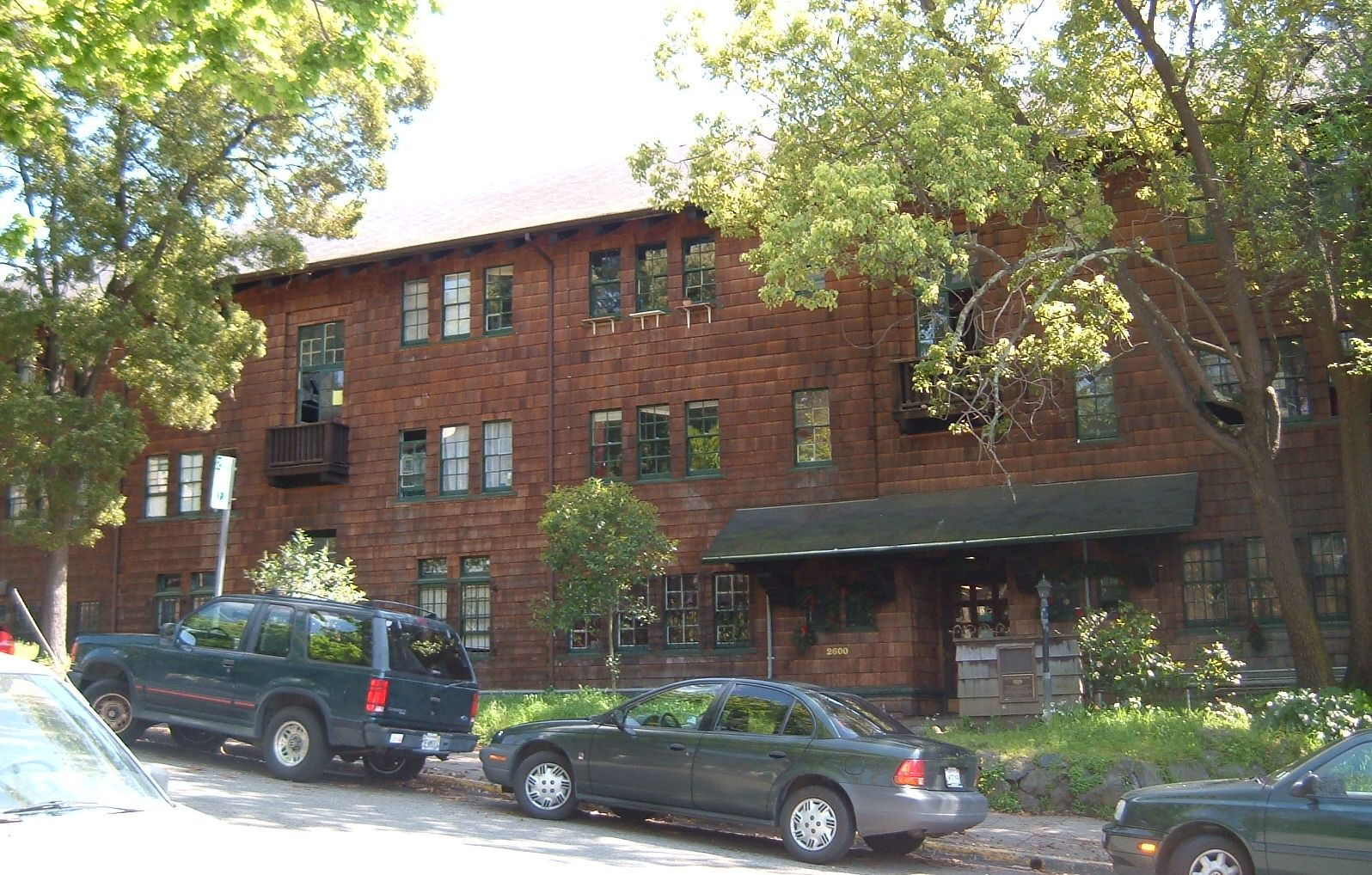 Cloyne Court Hotel as it exists today, in Berkeley. This picture shows a view of the building from Ridge Road on the north side of the house, including the front door.